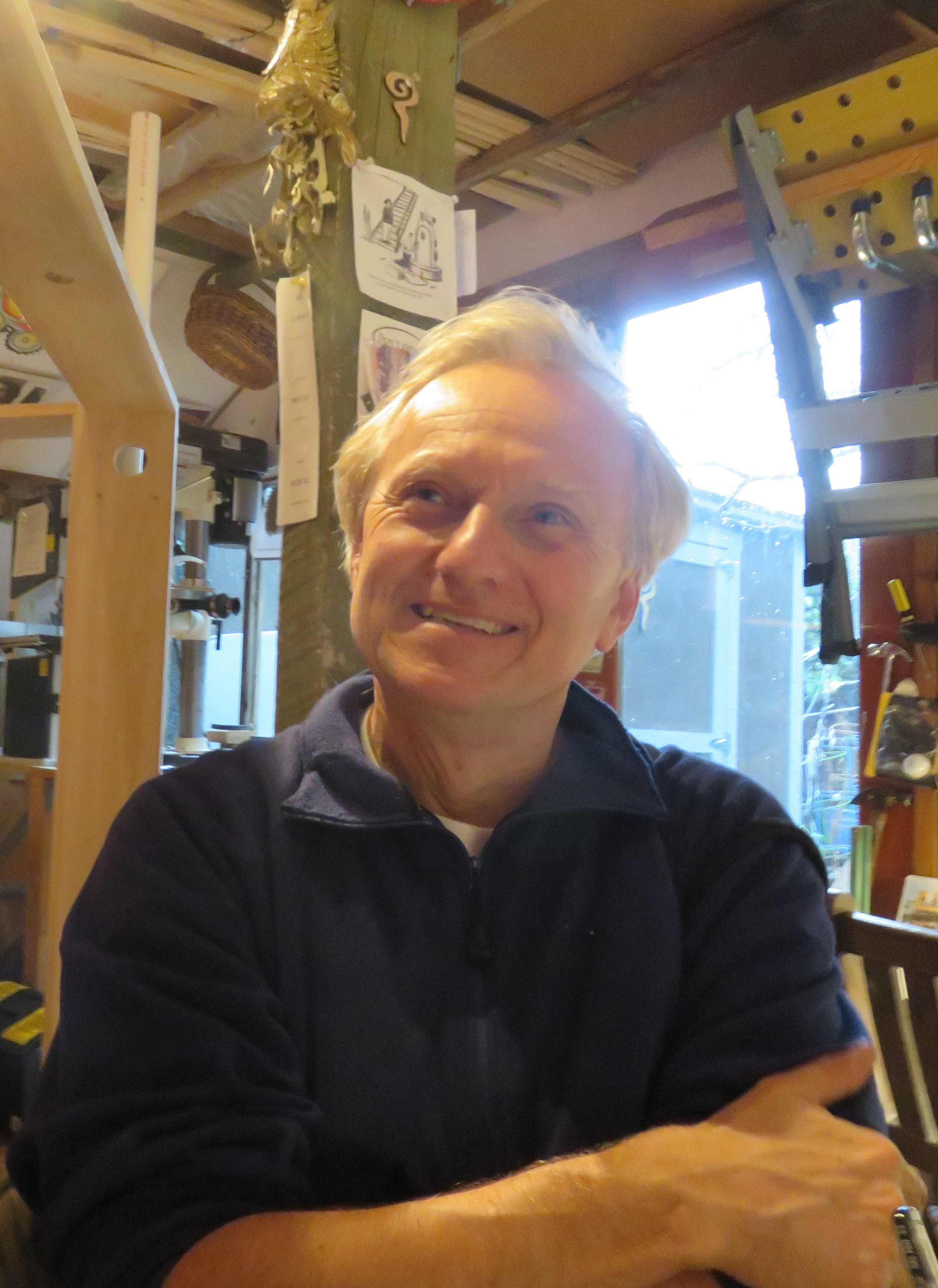 Piero Scaruffi at Pataphysical Studios on March 5, 2016